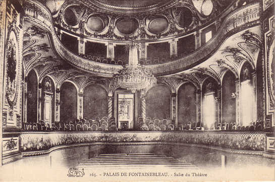 Château de Fontainebleau, France: Château de Fontainebleau (or Théâtre Napoléon III), by Hector Lefuel. Decoration by Charles Voillemot.